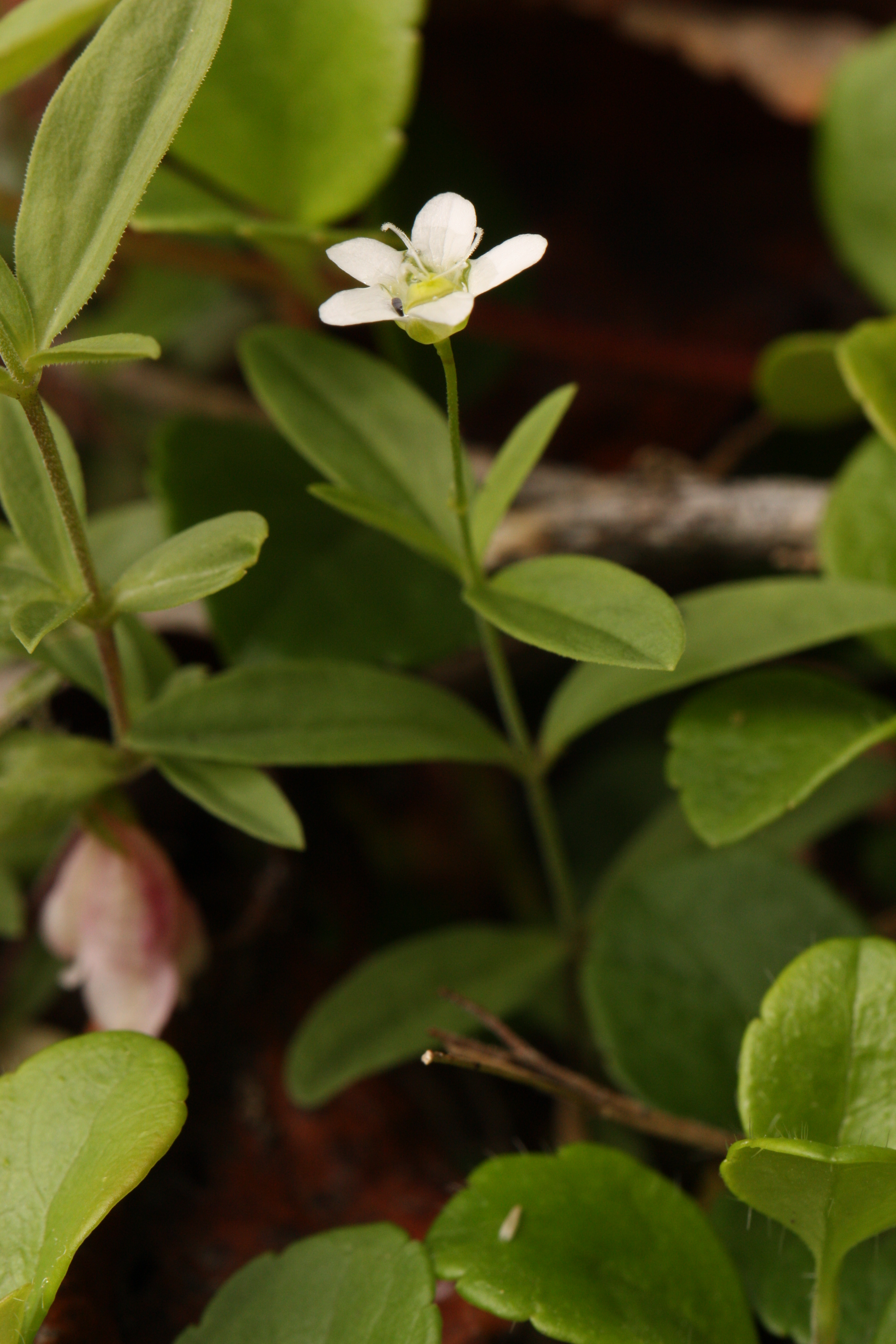 Blunt-leaf Sandwort